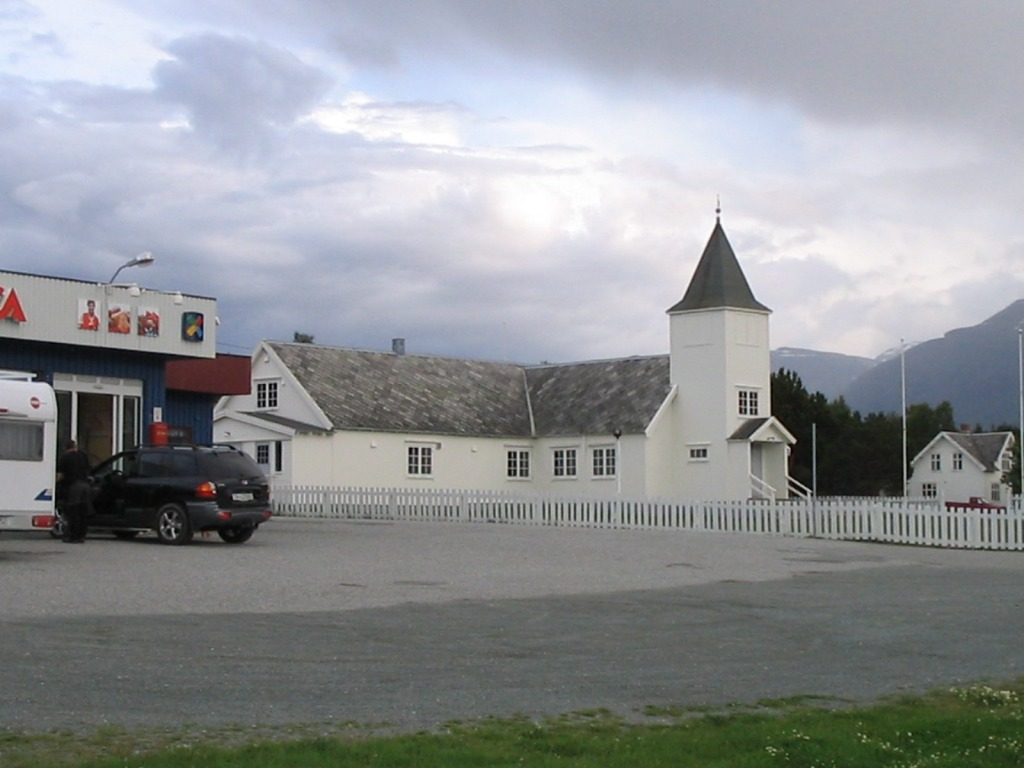 Skibotn church in Norway